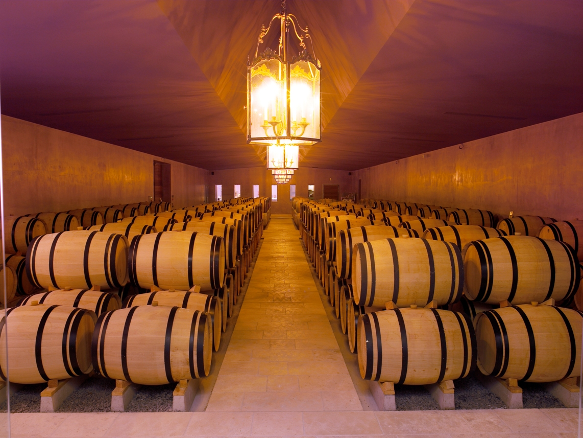 Chateau de Lussac's Oak barrel cellar